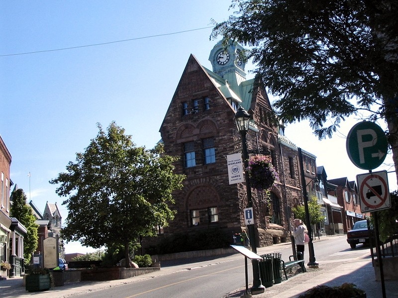 Former post office in Almonte, Ontario, Canada.